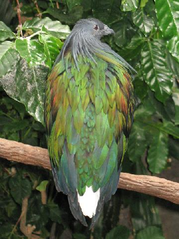 Description: Nicobar Pigeon - Source: own work - Location: Central Park Zoo, New York - Author: self, User:Stavenn